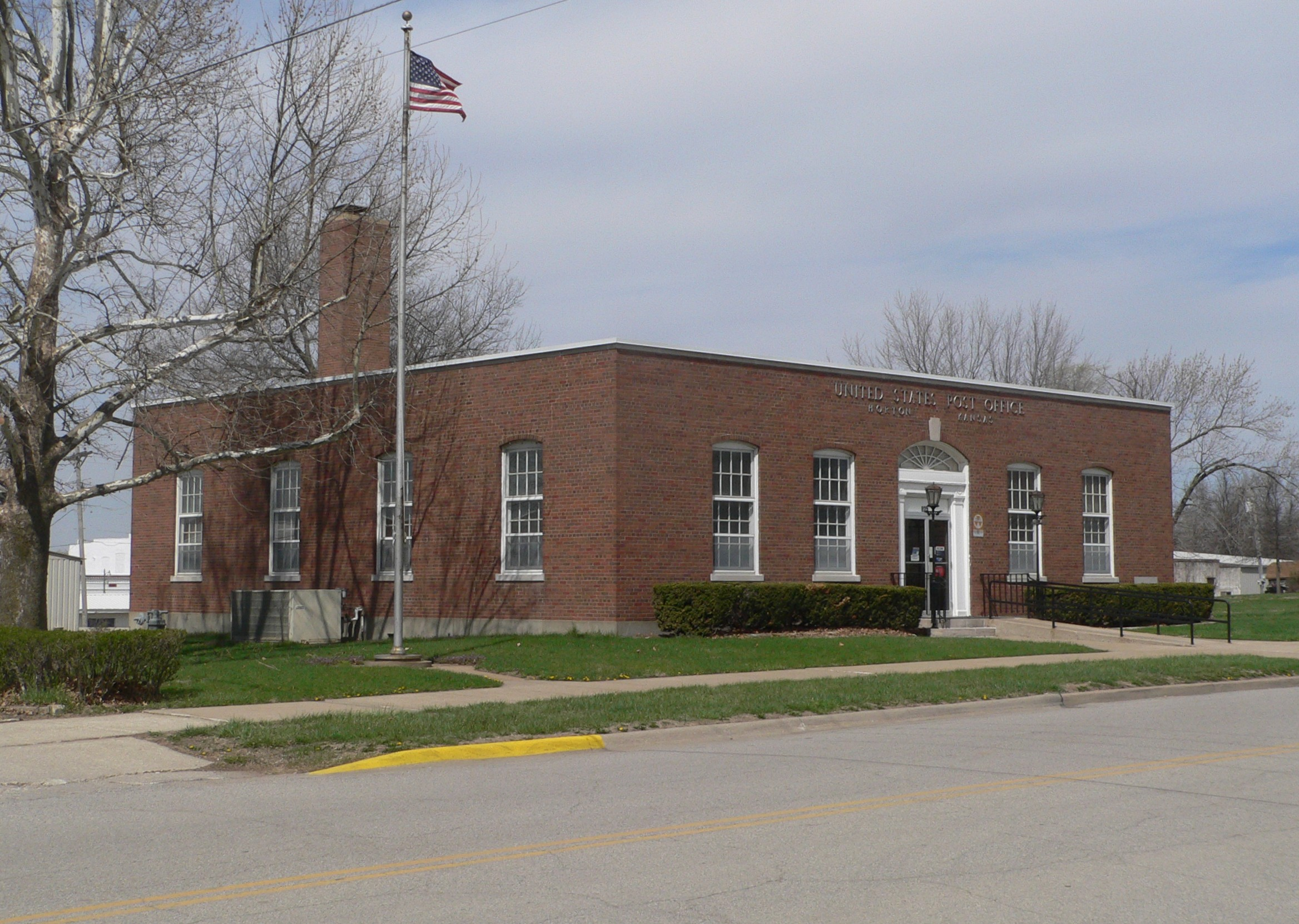 Post office at 825 1st Avenue East in Horton, Kansas; seen from the southeast.